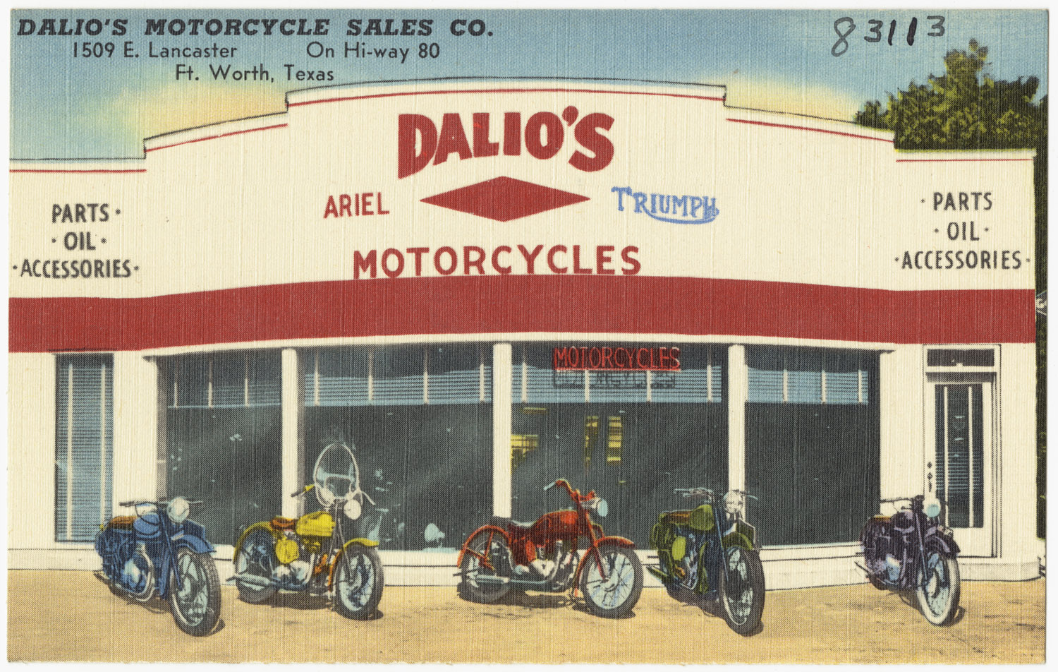 File name: 06_10_020099 Title: Dalio's Motorcycle Sales Co., 1509 E. Lancaster, on Hi-way 80, Ft. Worth, Texas Created/Published: Nationwide Specialty Co., Arlington, Texas Date issued: 1930-1945 (approximate) Physical description: 1 print (postcard) : linen texture, color ; 3 1/2 x 5 1/2 in. Genre: Postcards Subjects: Commercial facilities Notes: Title from item. Collection: The Tichnor Brothers Collection Location: Boston Public Library, Print Department Rights: No known restrictions